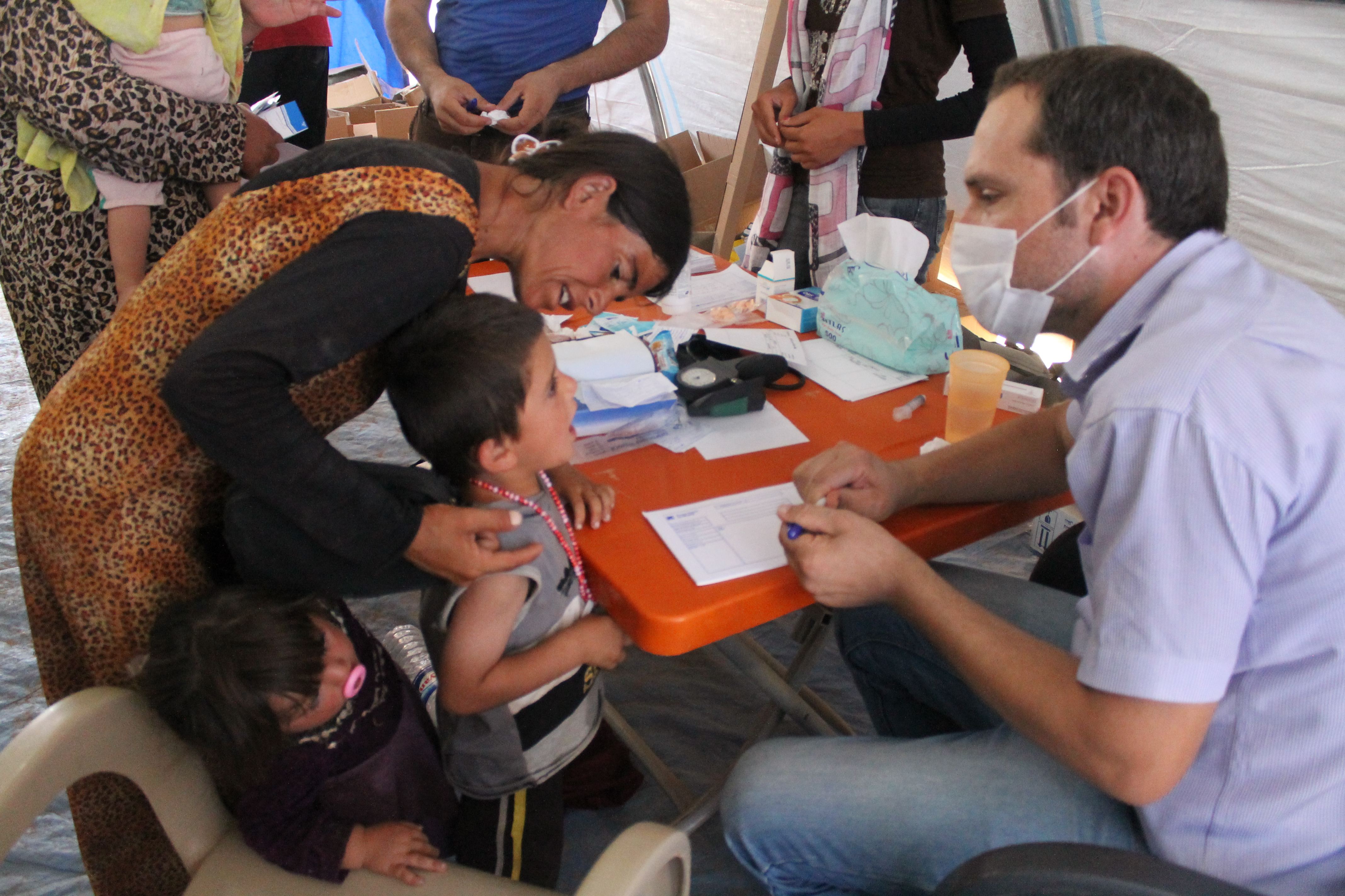 Some of the 12,000 Iraqi Yazidi refugees that have arrived at Newroz camp in Al-Hassakah province, north eastern Syria after fleeing Islamic State militants. The refugees had walked up to 60km in searing temperatures through the Sinjar mountains and many had suffered severe dehydration. The International Rescue Committee is providing medical care at the camp as well as distributing blankets, soap, underwear and solar powered lights and mobile phone chargers. Read more on this story: Latest updates on the UK government’s response to the Iraq crisis: Picture: Rachel Unkovic/International Rescue Committee